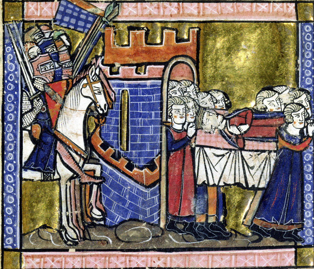 Baldwin II